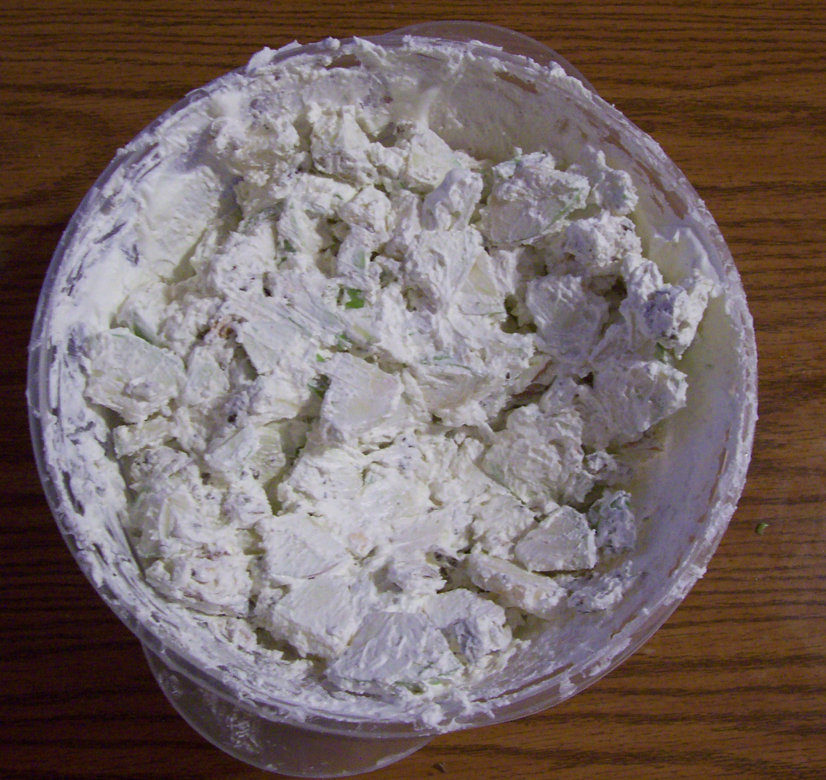 Snickers salad, prepared by User:Royalbroil